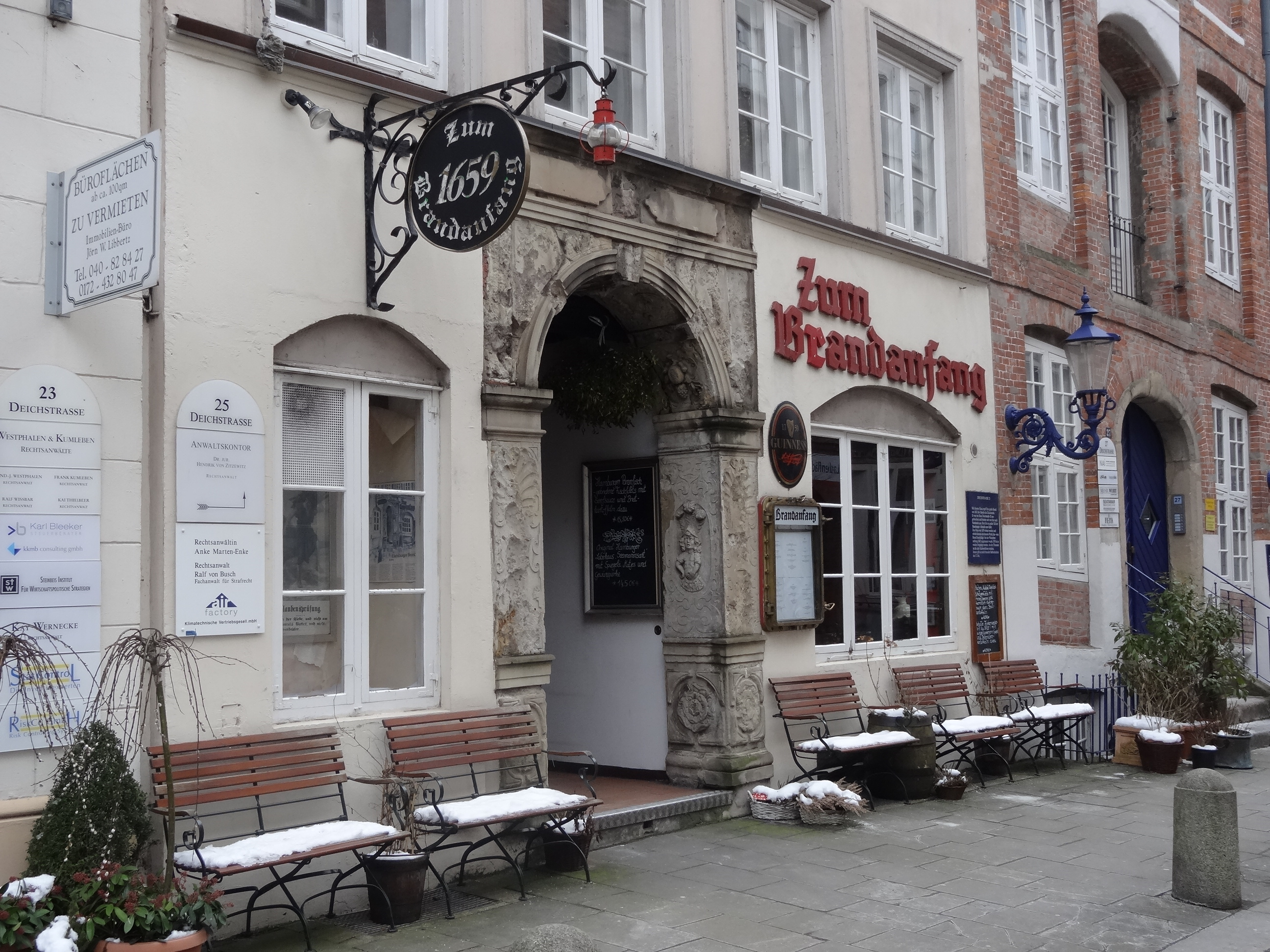 Deichstraße (Hamburg)